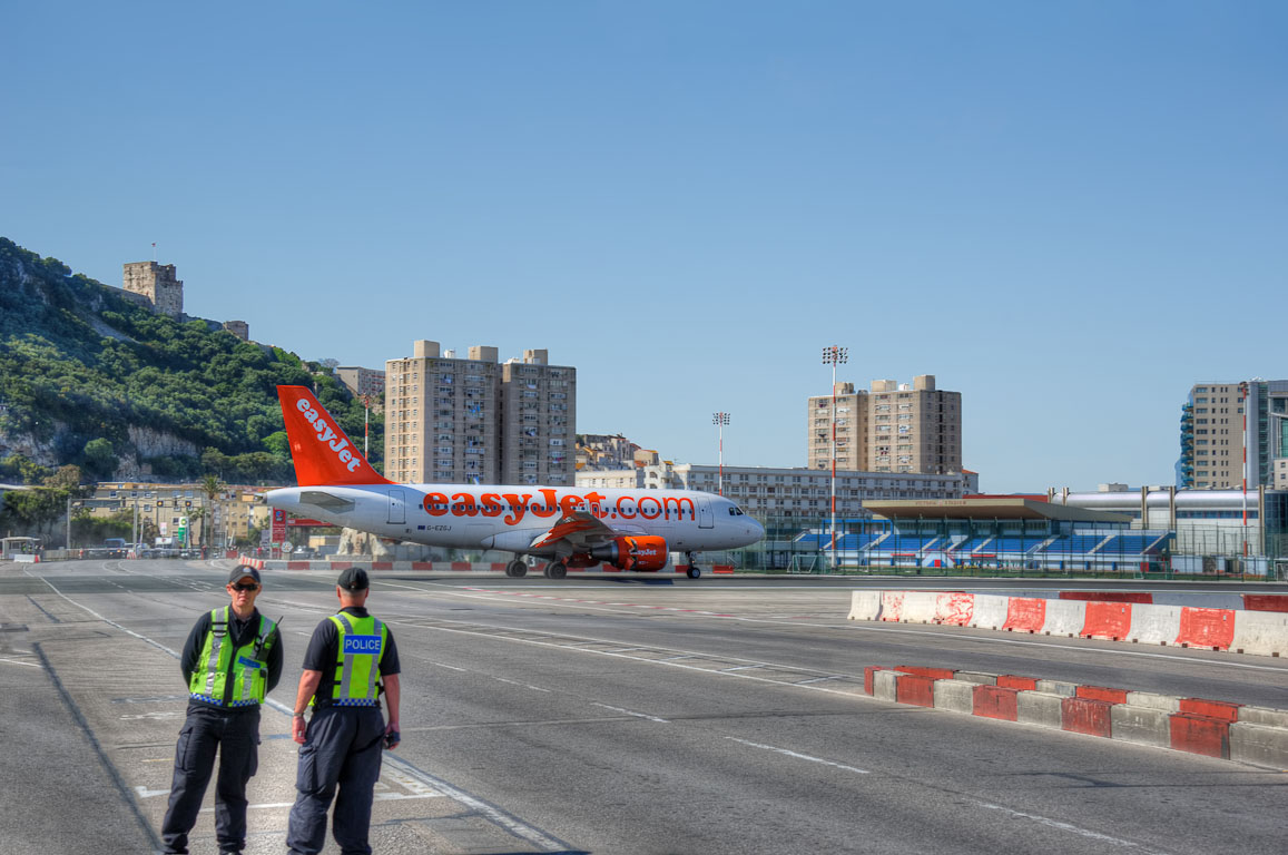 easyJet aircraft crossing Winston Churchill Avenue in Gibraltar while traffic is stopped across the runway at Gibraltar International Airport.